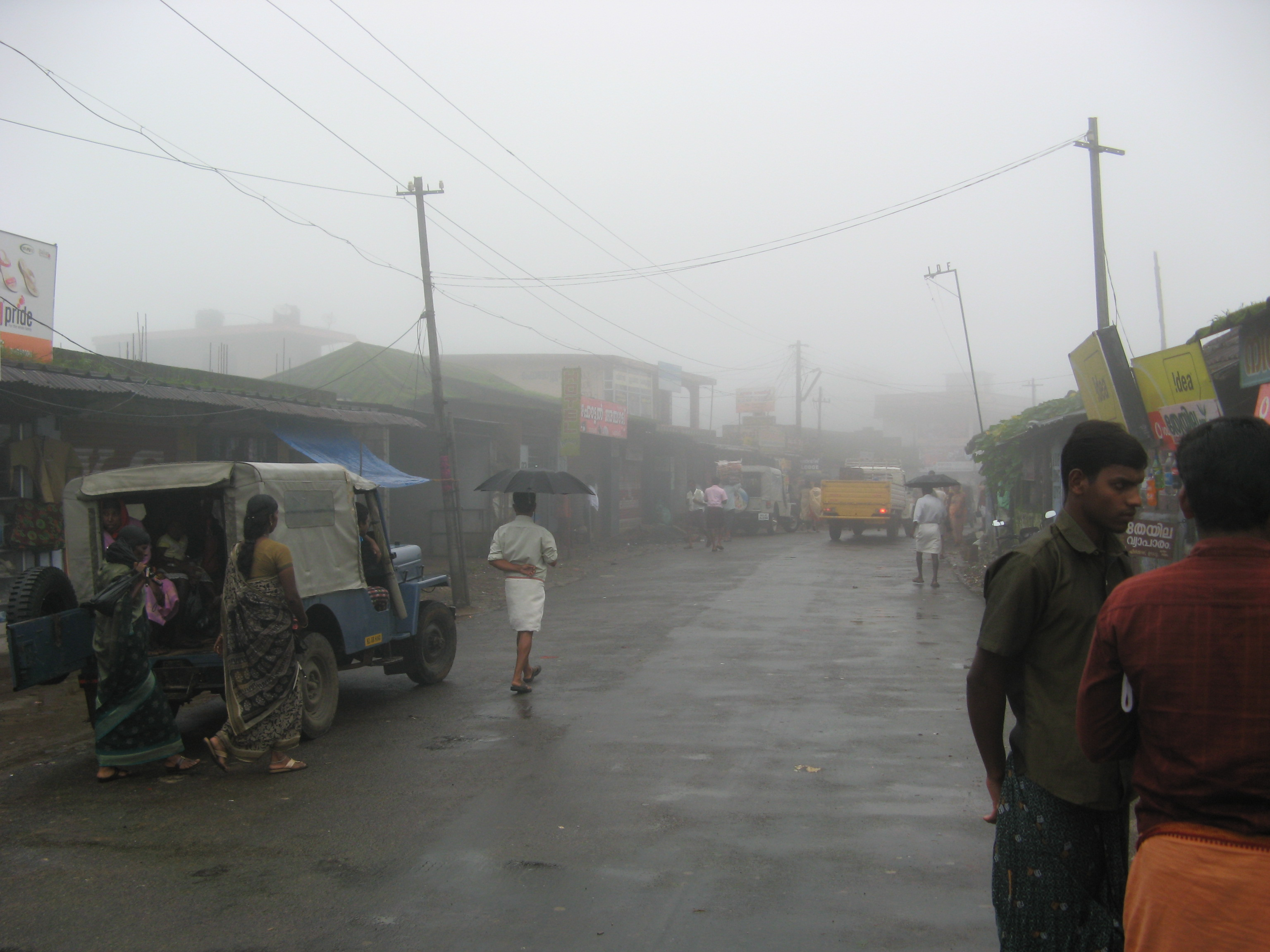 Vagamon Town, Vagamon